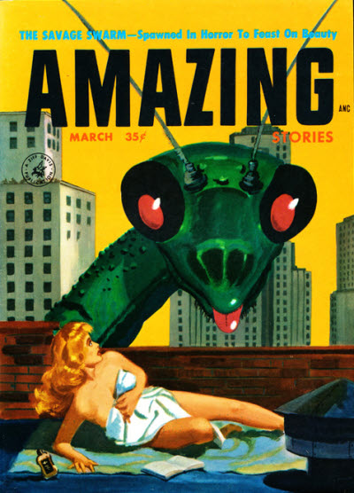 Cover of Amazing Stories, March 1957